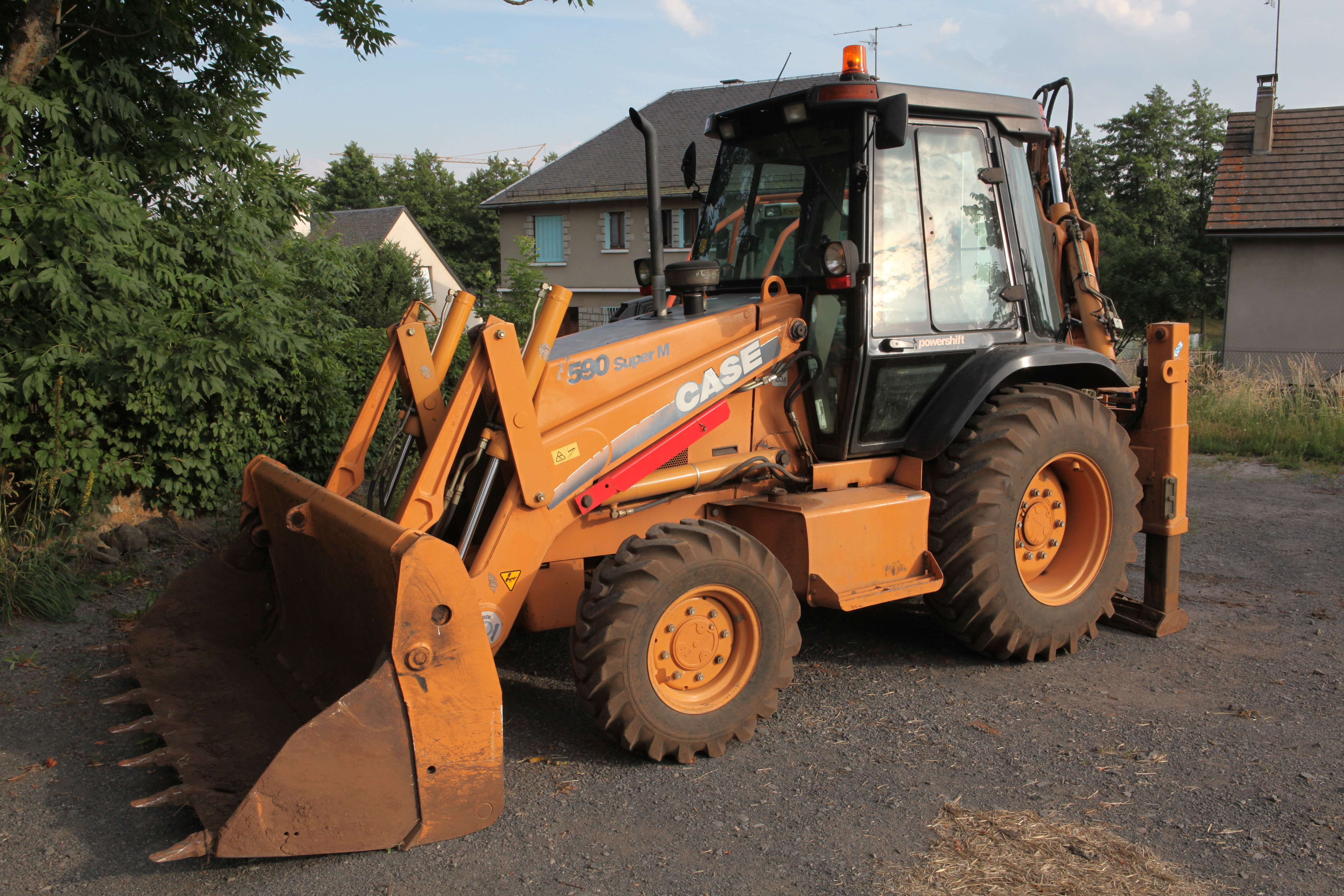 Case 590 Super M backhoe loader